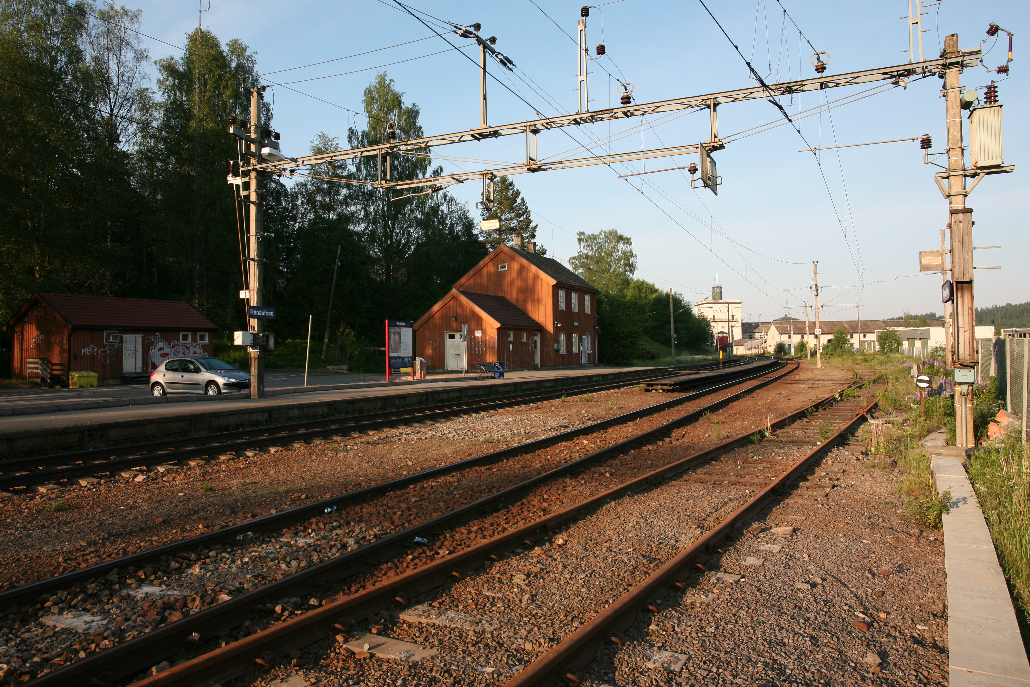 Picture of Rånåsfoss Railway Station (Norway)